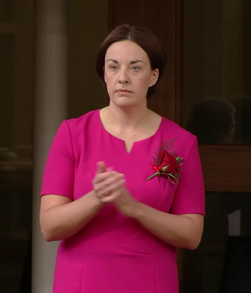 Kezia Alexandra Ross Dugdale, Member of the Scottish Parliament for Lothian, waits to make affirmation following the 2016 election.